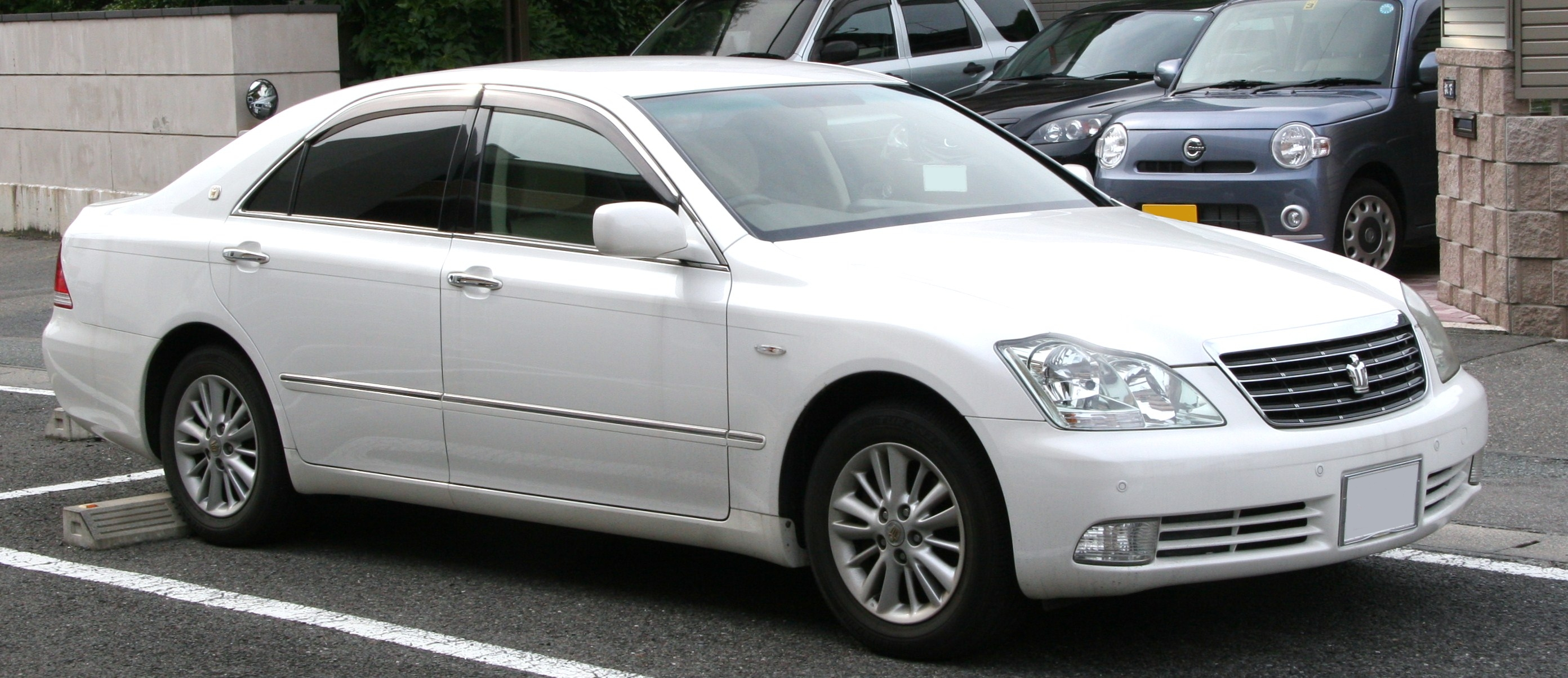 Toyota Crown